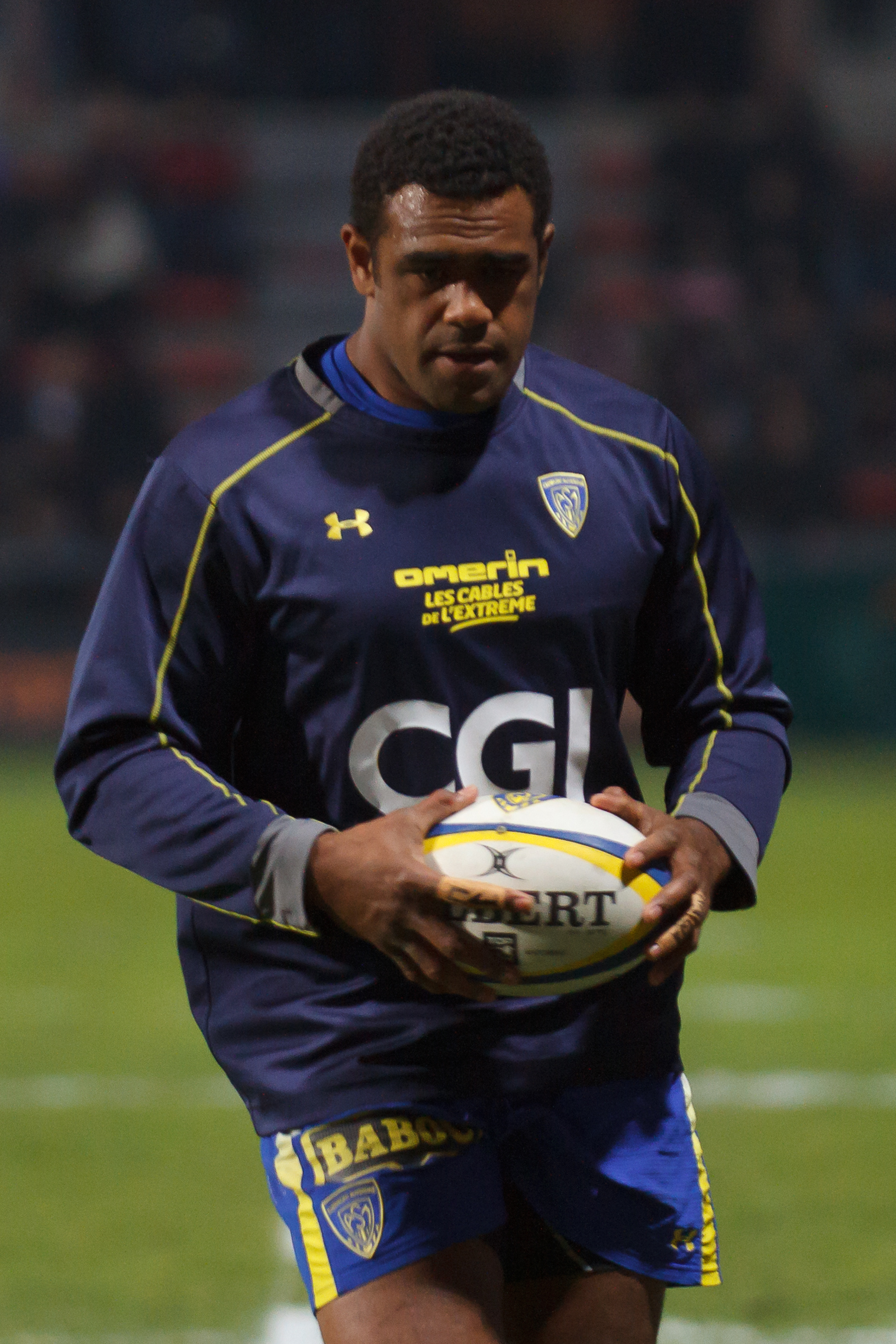 Napolioni Nalaga during warm-up session before the match between Stade toulousain and ASM Clermont Auvergne (Top 14), on January 5th, 2014.